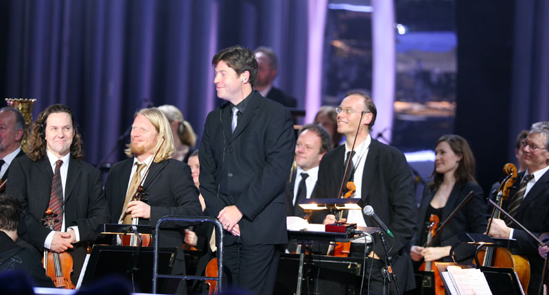 Nobel Peace prize Concert 2008, Oslo Spektrum, The Norwegian Radio Orchestra